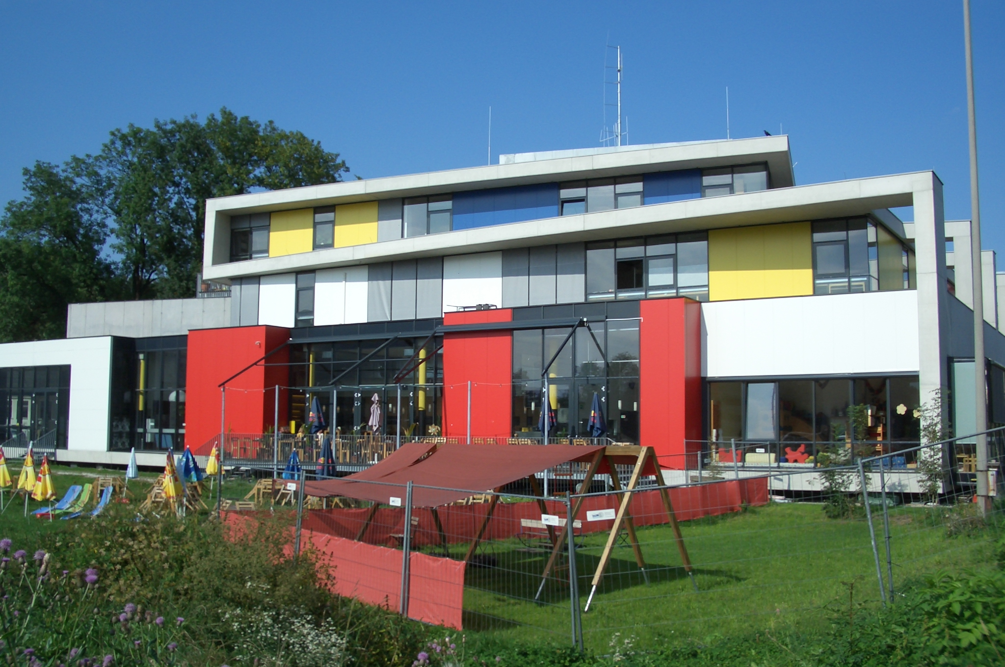 ARGE Kultur Building, 1.Floor Radiofabrik 107,5, Salzburg/Nonntal - Austria